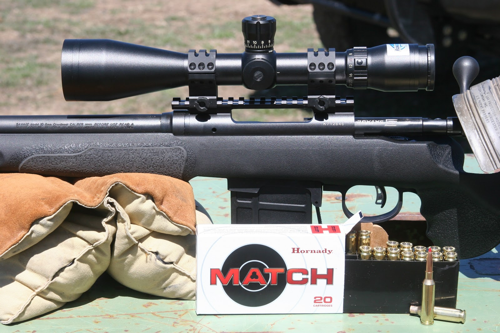 A Savage long range precision rifle with a GRS stock, chambered in 6mm Creedmoor.